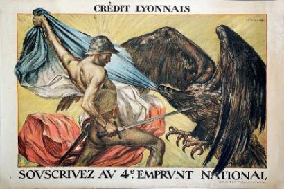 "Souscrivez au 4e emprunt national" poster of the Crédit Lyonnais